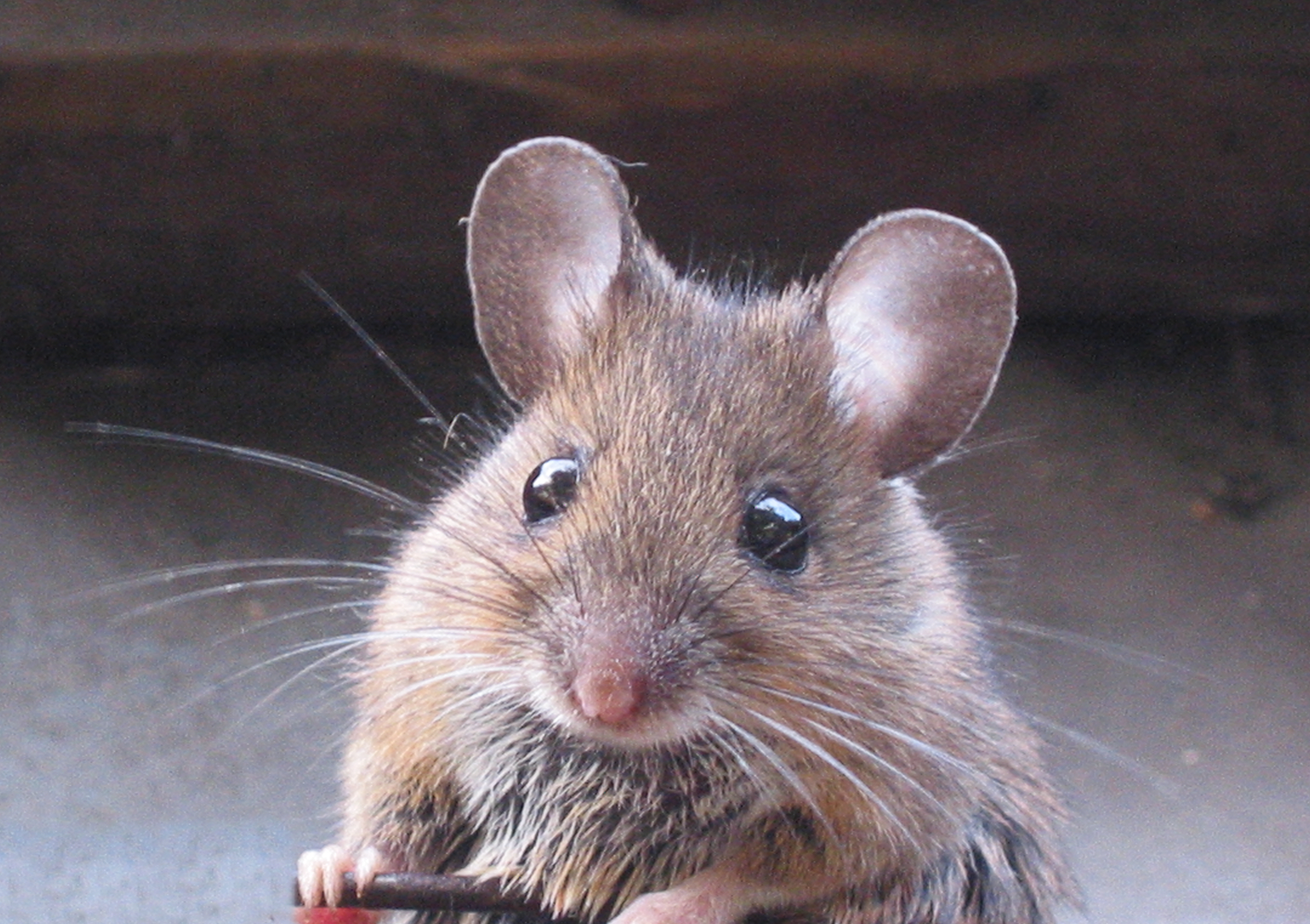 Wood mouse in the Netherlands